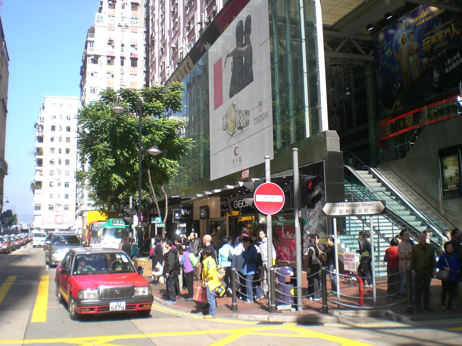 百德新街珠城大廈珠城戲院, Paterson Street, Causeway Bay, Hong Kong